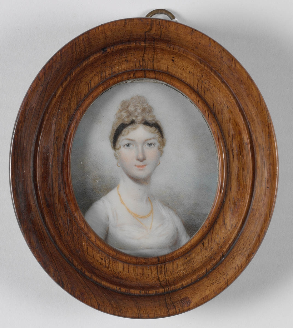 Mary Putland (nee Bligh, later O'Connell) (1783-1864), daughter and "First Lady" to New South Wales Governor William Bligh